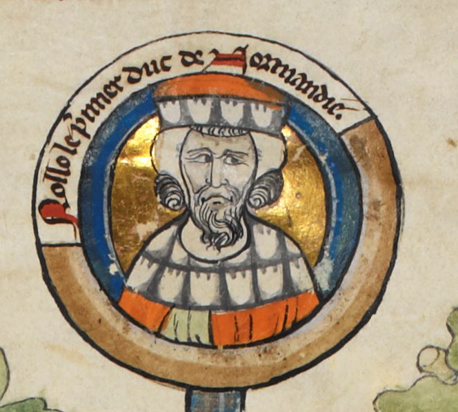 Rollo, Duke of Normandy. Detail from the roll of the dukes of Normandy: Rollo, William, and Richard, with seven roundels showing Richard's children [1].